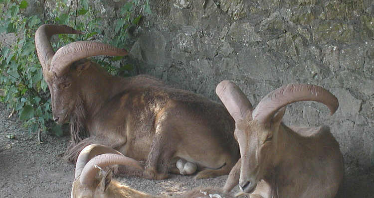 Barbary Sheep at Paignton Zoo, Devon, England. Taken by Adrian Pingstone in July 2003 and placed in the public domain.